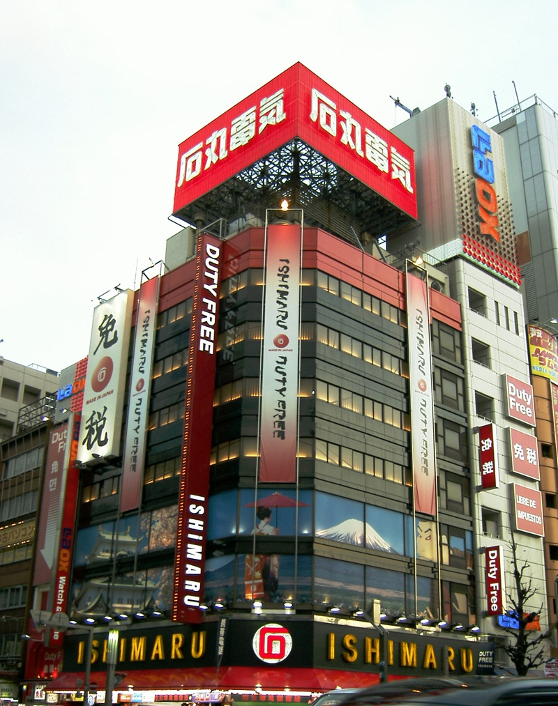 Ishimaru Denki Electric Duty Free Shop, now use as Akihabara Radio Hall 1st building, Akihabara, Tokyo, Japan